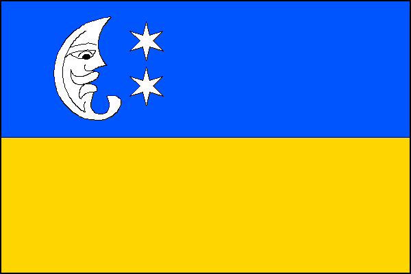 Municipal flag of Bousín village, Prostějov District, Czech Republic.